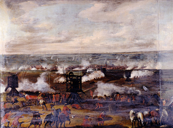 6 June 1677 the Danish army failed to take Malmö.